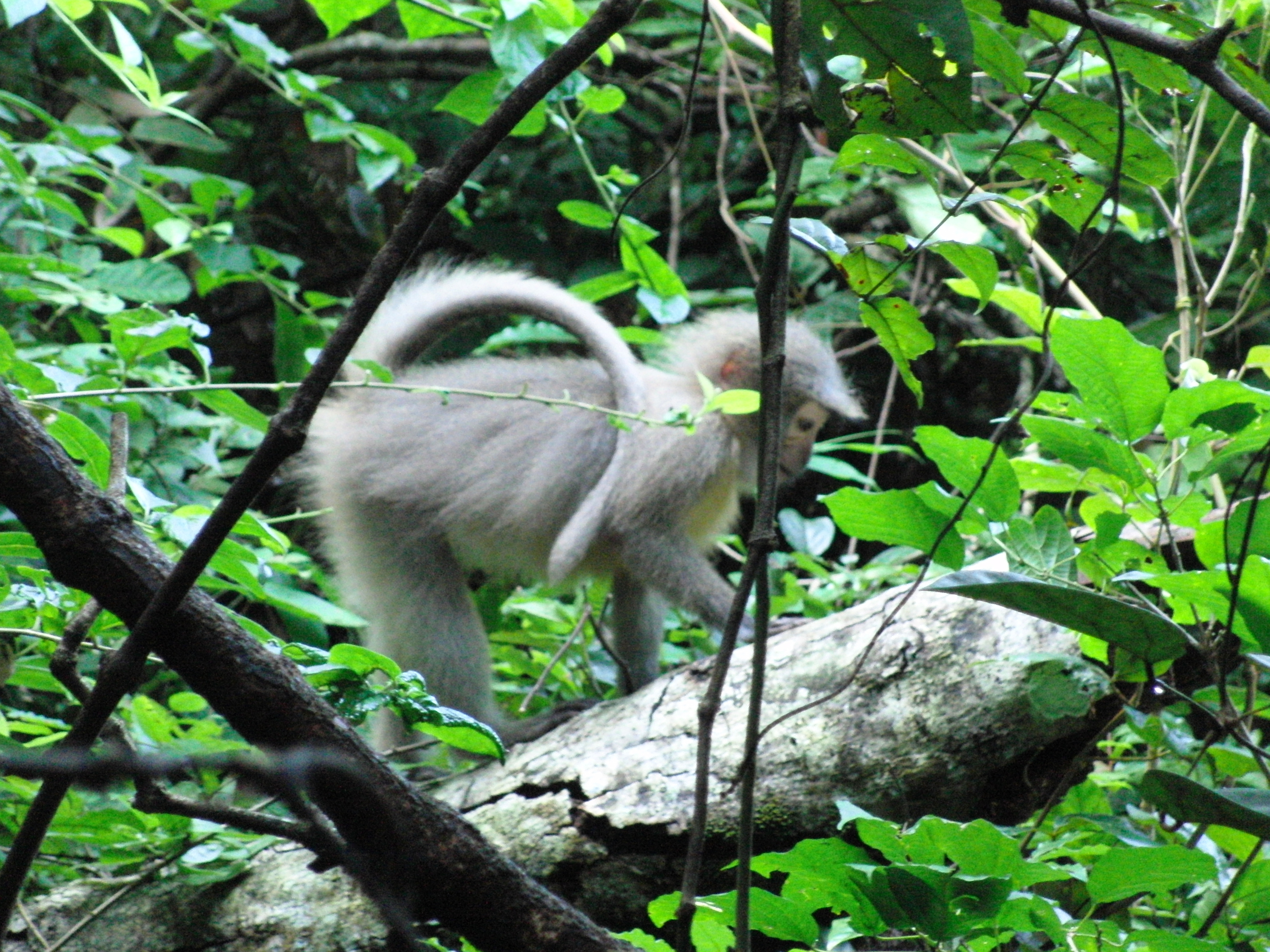 Mangabey monkey in the Udzungwa Mountains National Park, Tanzania.